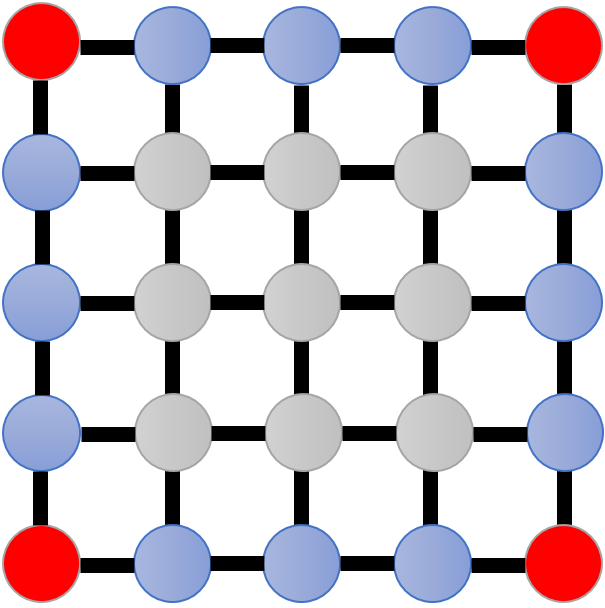 Leader election mesh graph